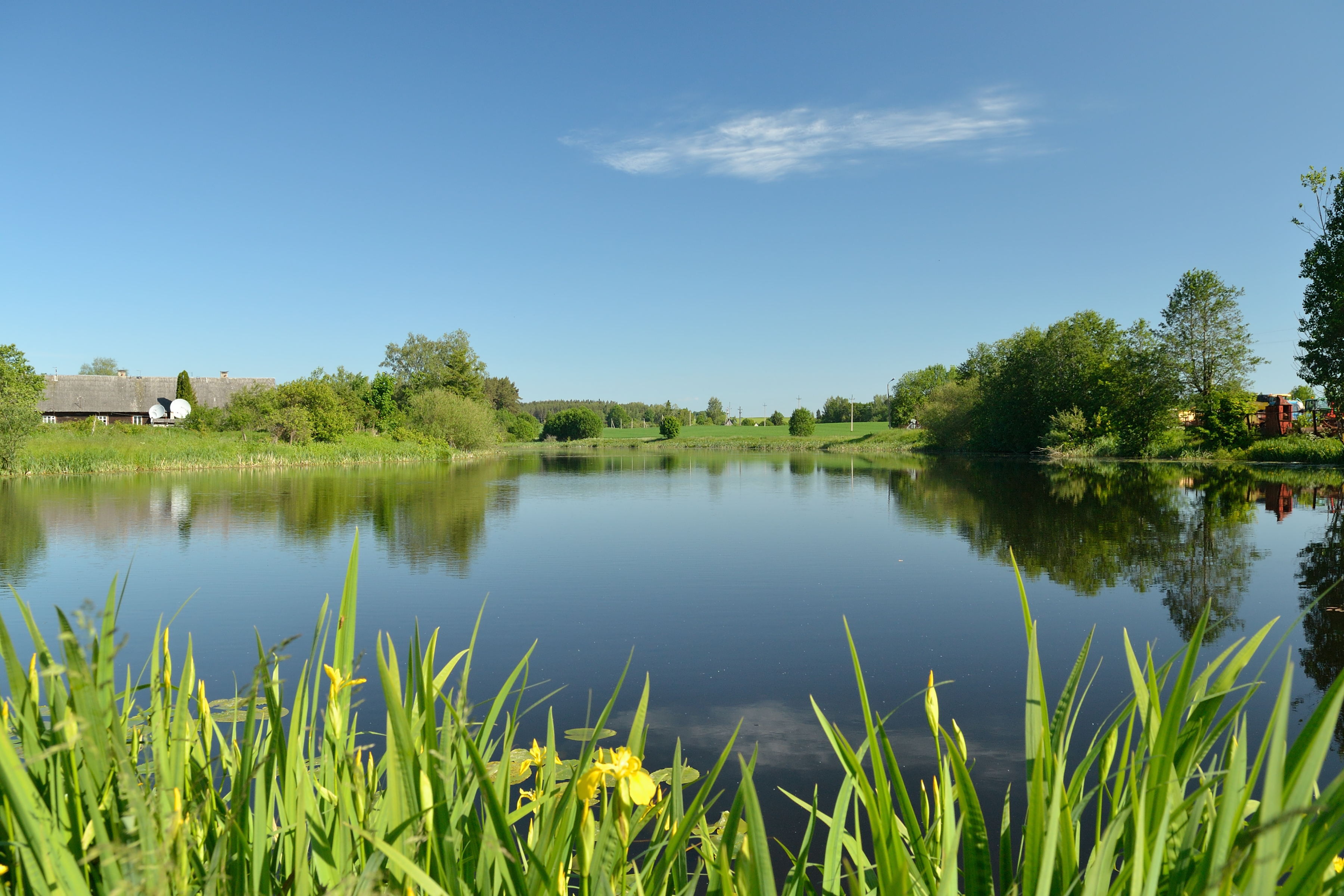 Pikkjärve impounded lake - Nava stream